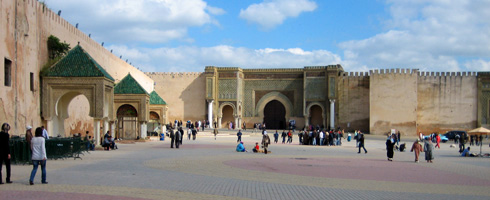 The heart of the medina of Meknes city: Bab Mansour Gate in the background facing El Hedime Place.